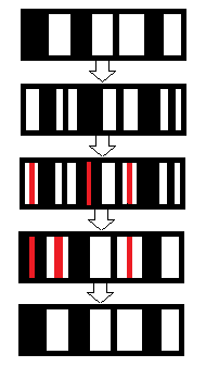 It is an illustration for a proof contained on the page "computationally bounded adversary."